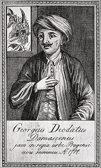 Georgius Deodatus Damascenus